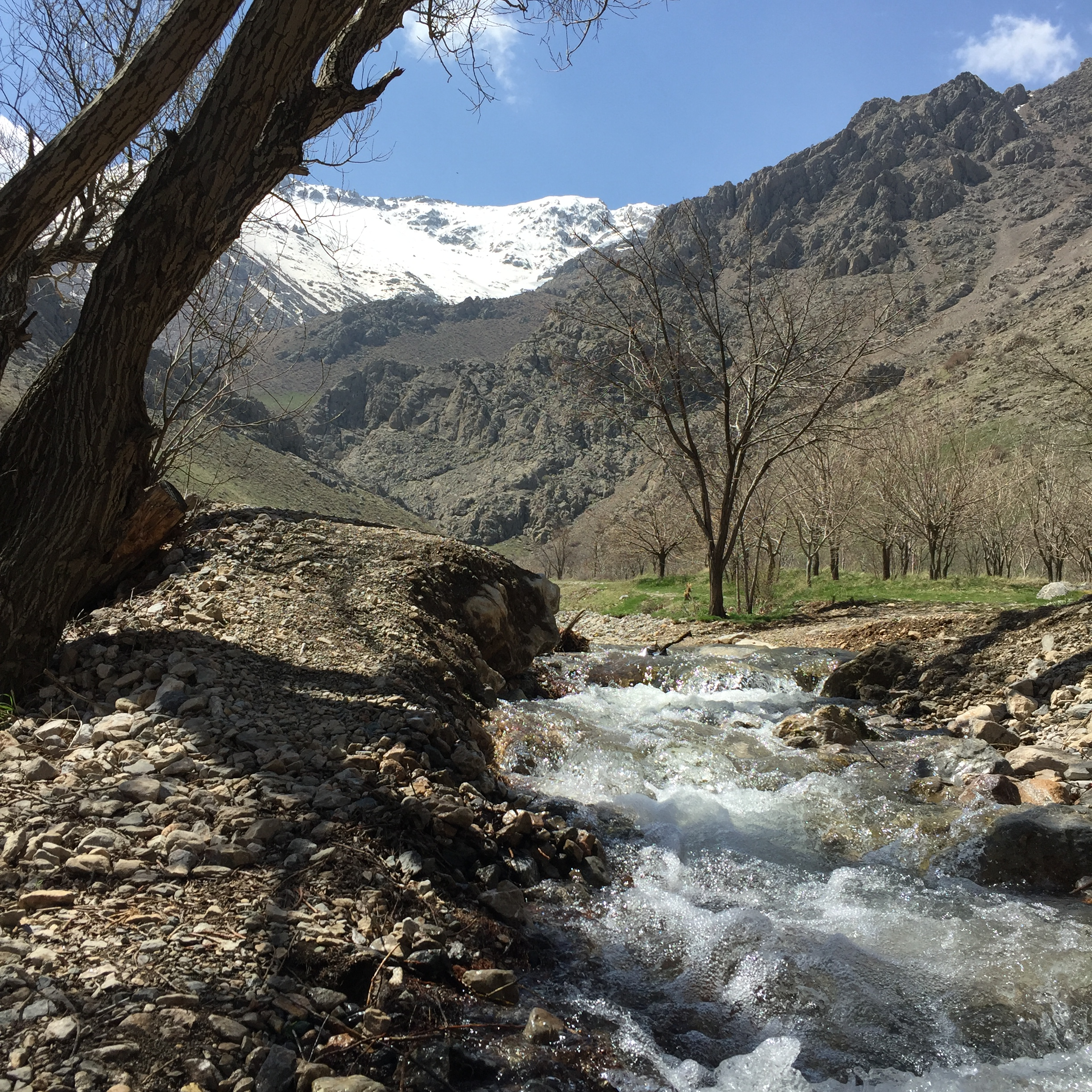 سراب فارسبان